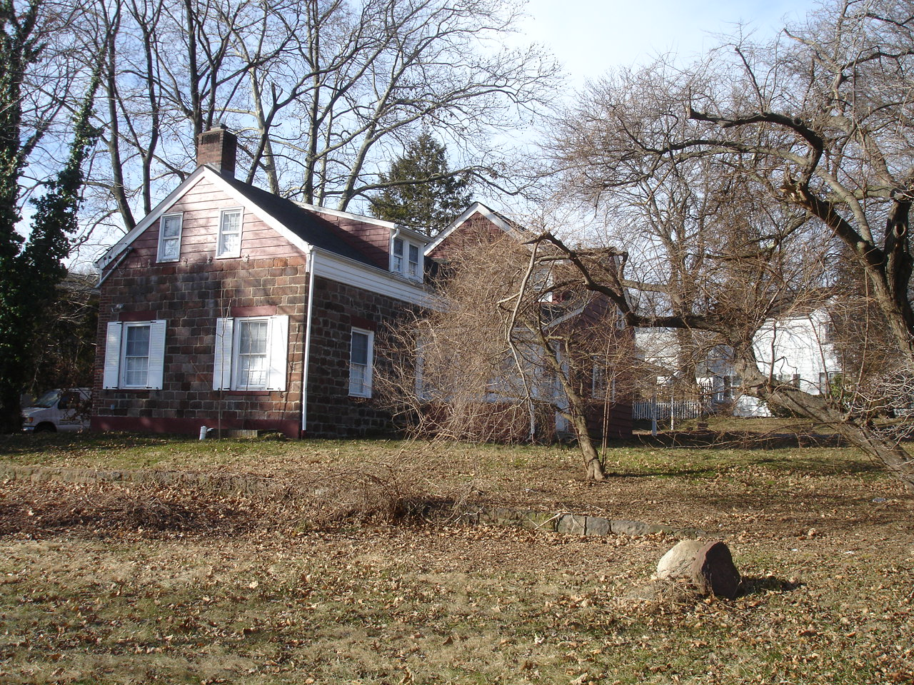 I took this photo of the James Vandelinda House myself on January 16, 2012.